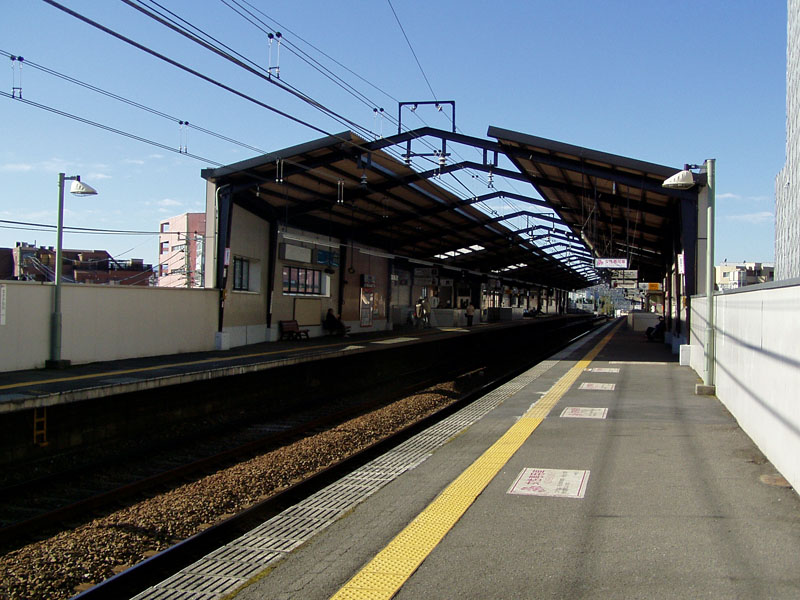 Platform of Nakagawara Station in Fuchu, Tokyo, Japan